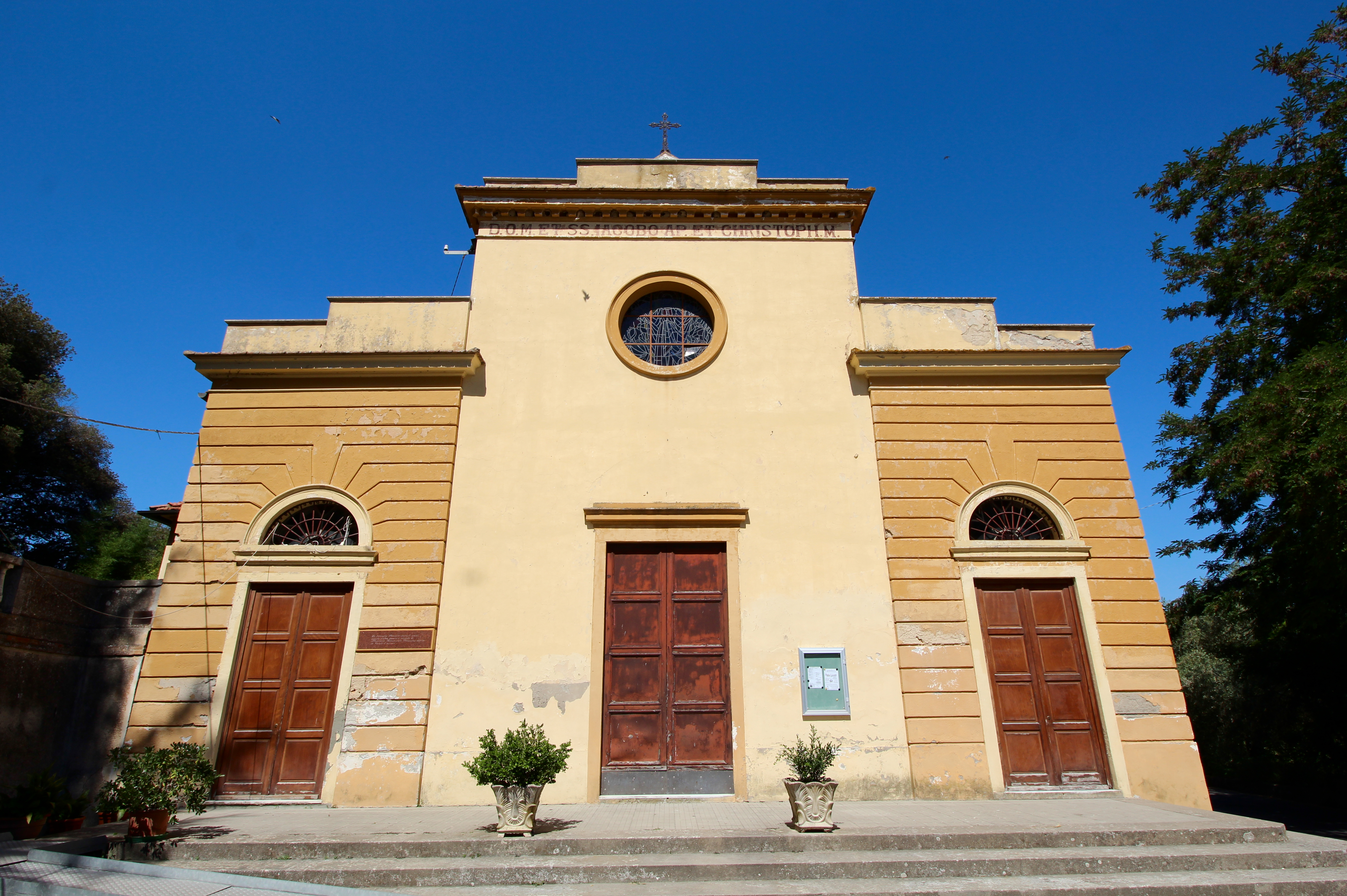 Church Santi Jacopo e Cristoforo, Tripalle, hamlet of Crespina Lorenzana, Province of Pisa, Tuscany, Italy